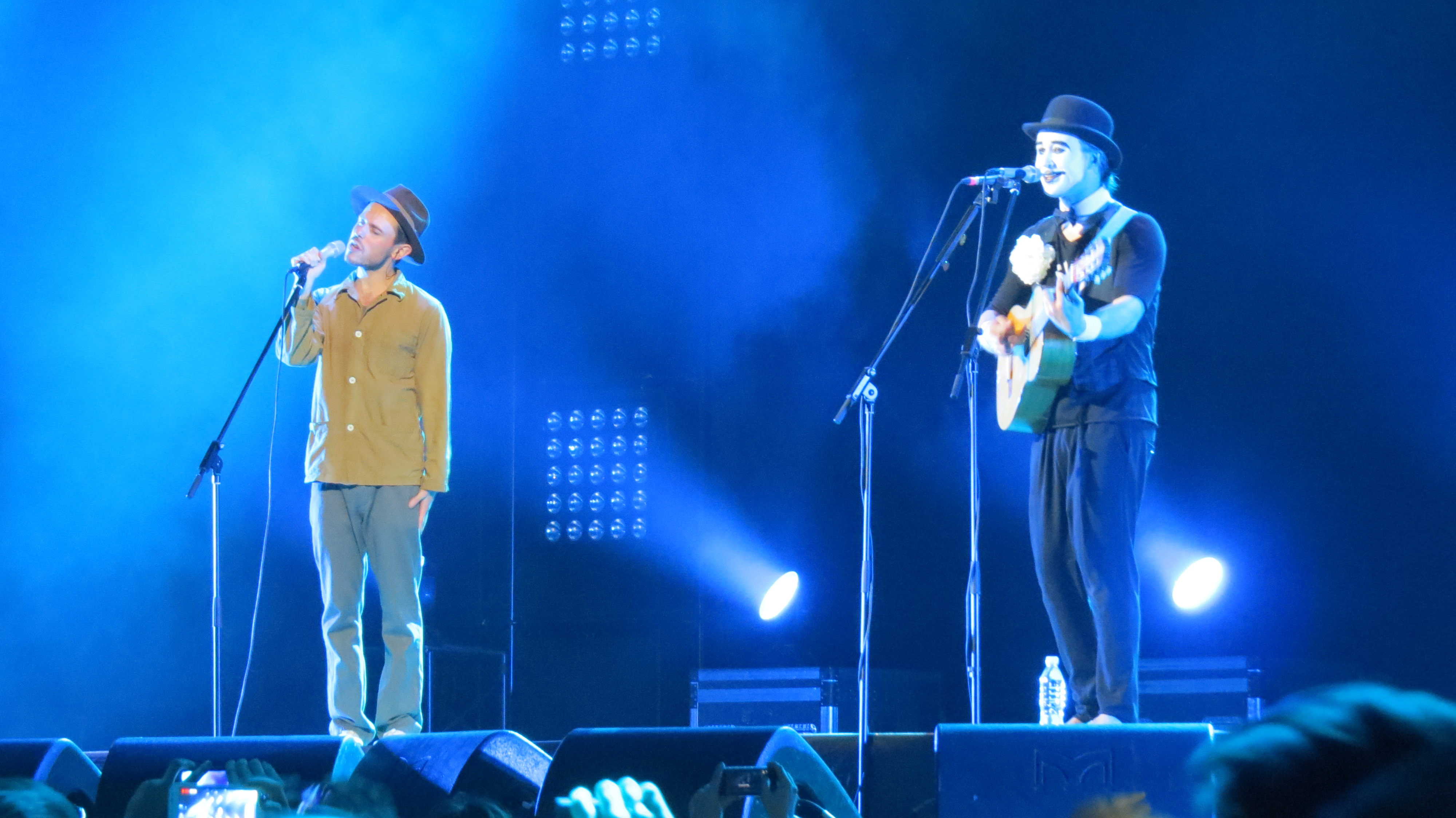 Concert of 5'nizza band - "Reunion" in Moscow. June 5, 2015.